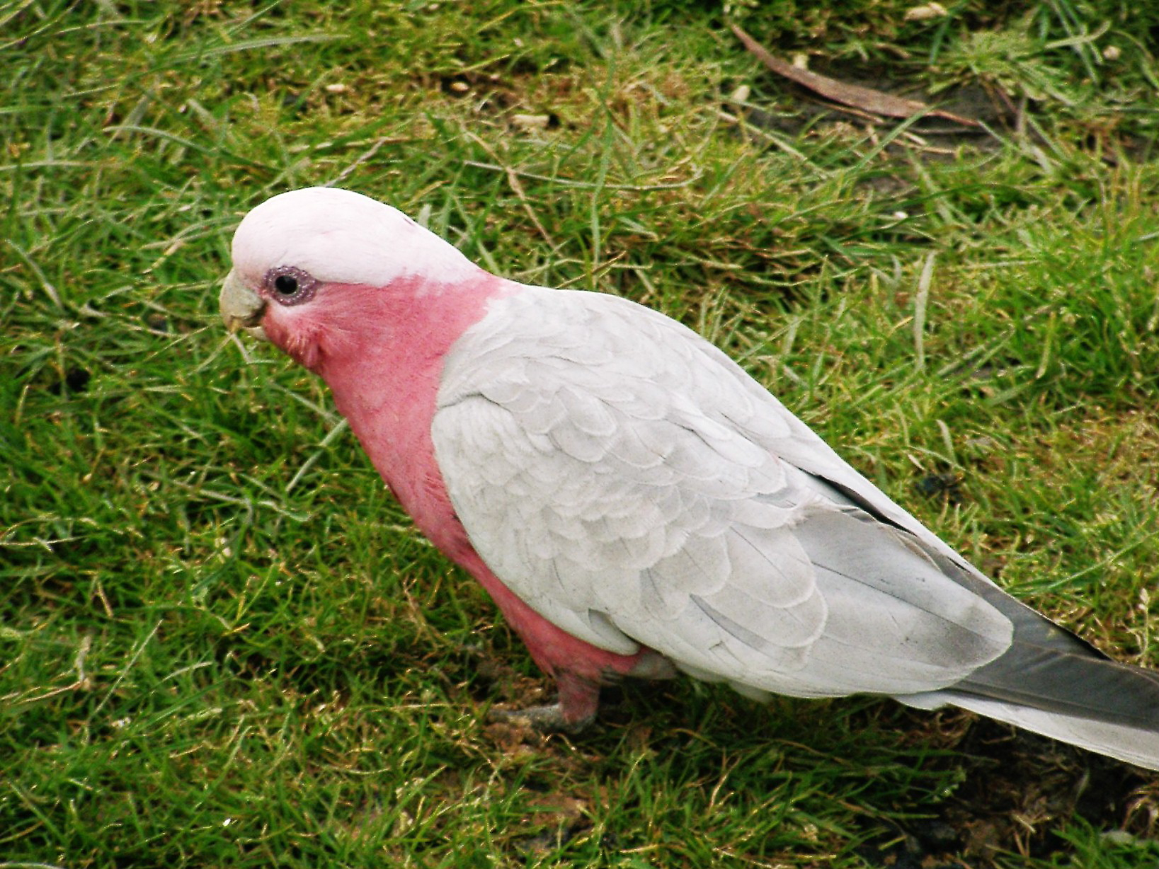 Galah Parrot in Bicheno Wildlife Park, Tasmania